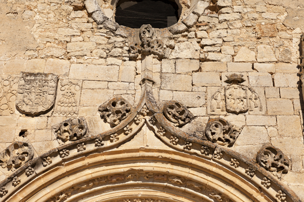 Iglesia Panteón de los Marqueses de Moya; Carboneras de Guadazaón; Castilla la Mancha, Cuenca, Spain; ref: PM_065249_E_Carboneras_de_Guadazon; ; ; Photographer: Paul M.R. Maeyaert; © Paul M.R. Maeyaert; ; Cultural heritage; Europe/Spain/Carboneras de Guadazaón; LoCloud selectie